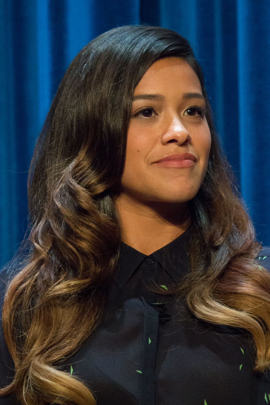 Actress Gina Rodriguez at the 2014 PaleyFest Fall TV Previews for "Jane The Virgin"